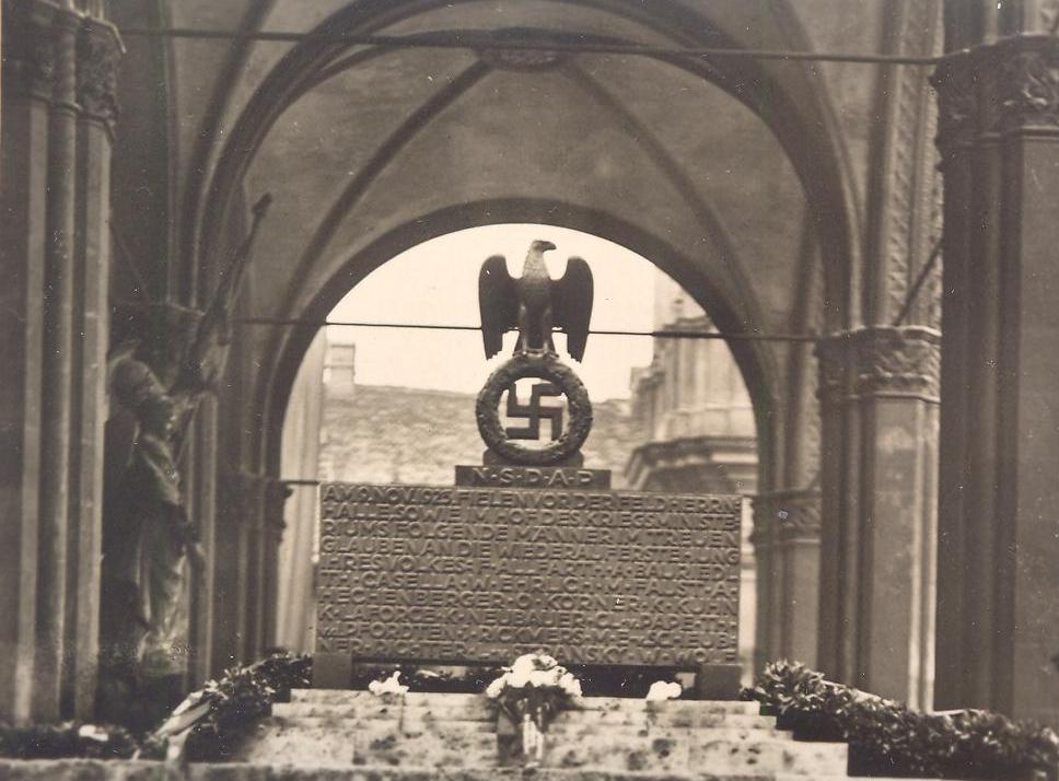 The Feldherrnhalle, Munich, Germany